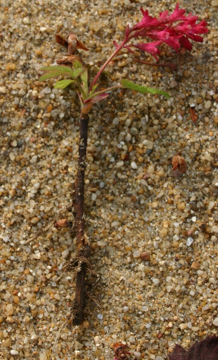 Woody cutting of Ribes sanguineum: Adventive roots are being created.